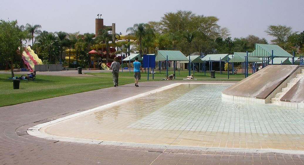 The hot pools complex and campground in the town of Bela Bela (Warmbaths), South Africa, 12:45 PM local time